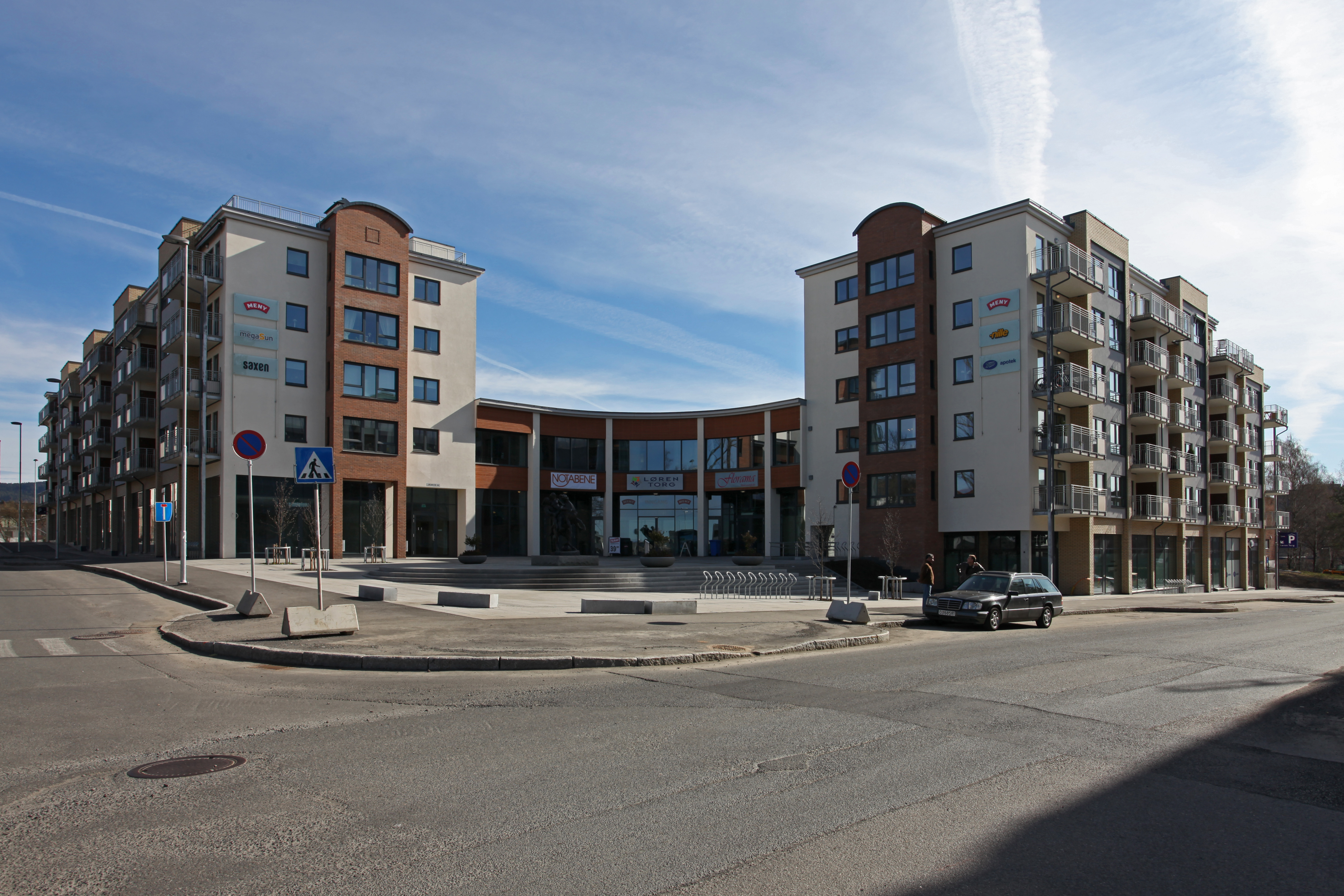 Picture of Løren Torg (Oslo - Norway)